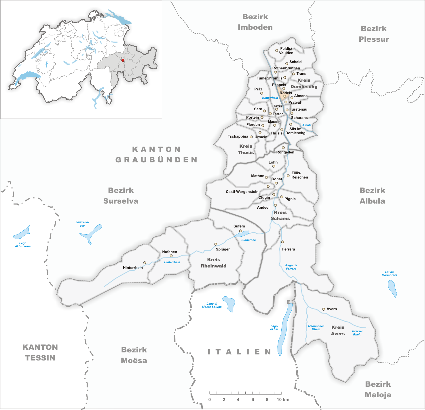 Municipality Rodels